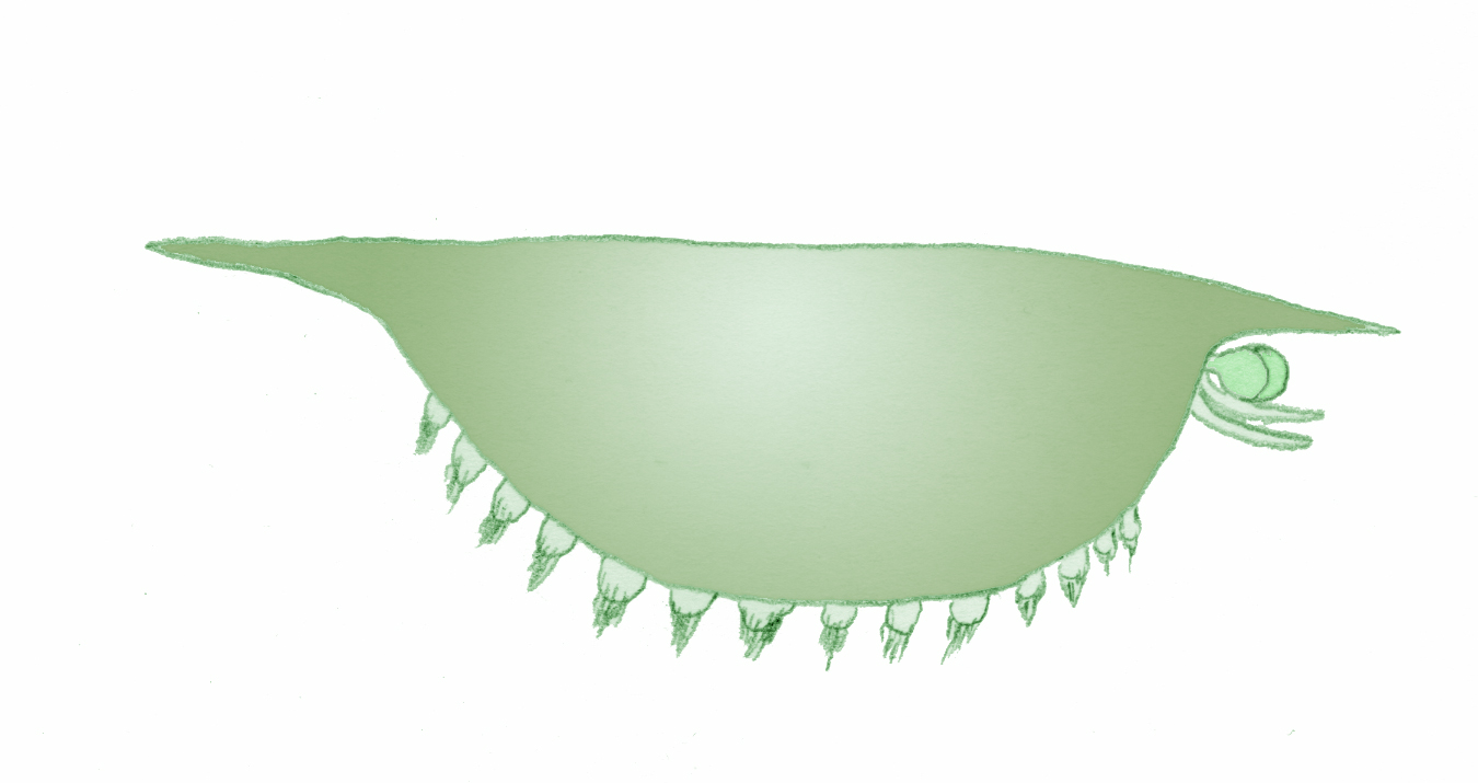 Restoration of Isoxys auritus, an extinct arthropod